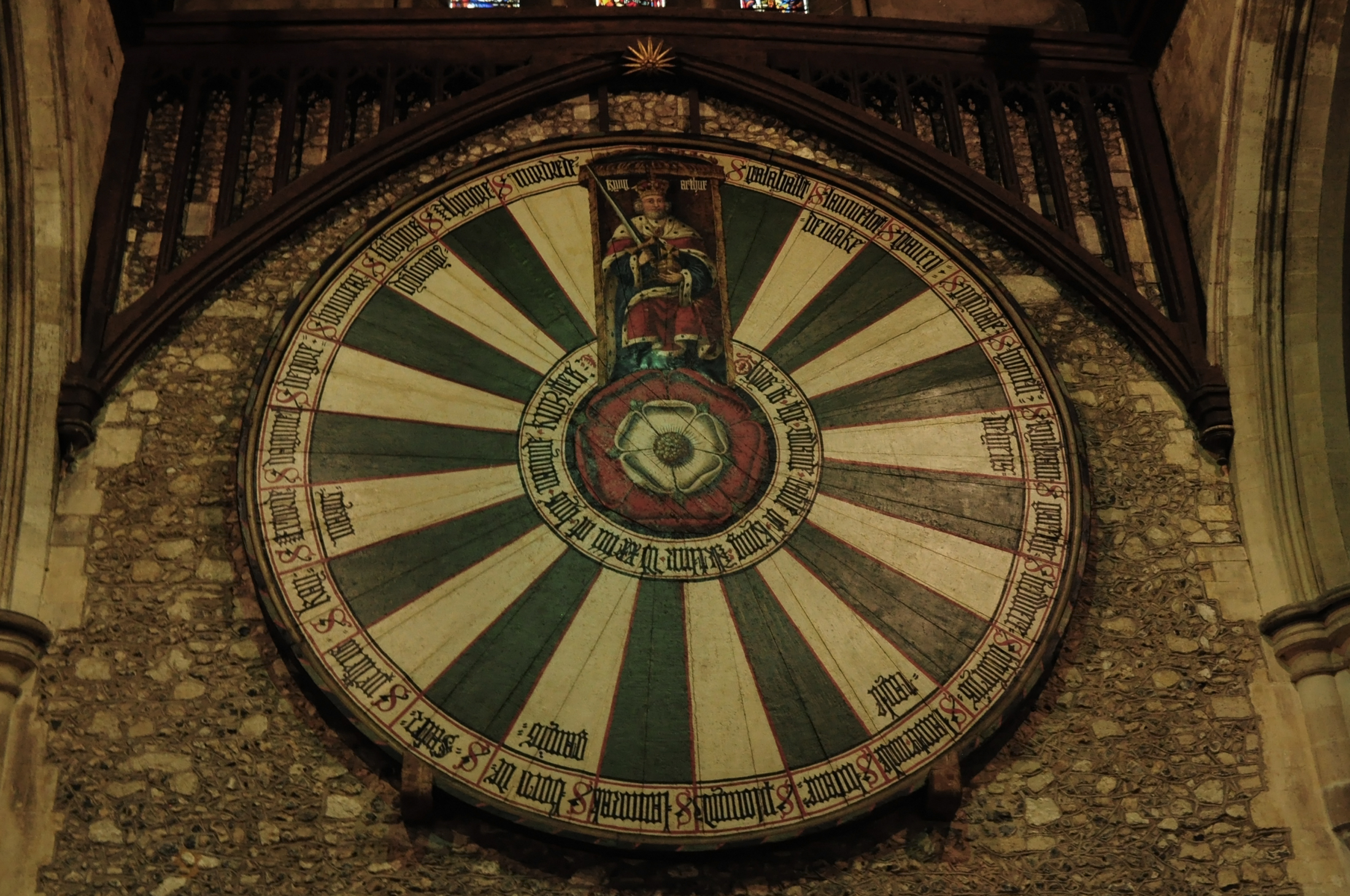 The round table, Great Hall, Winchester Castle